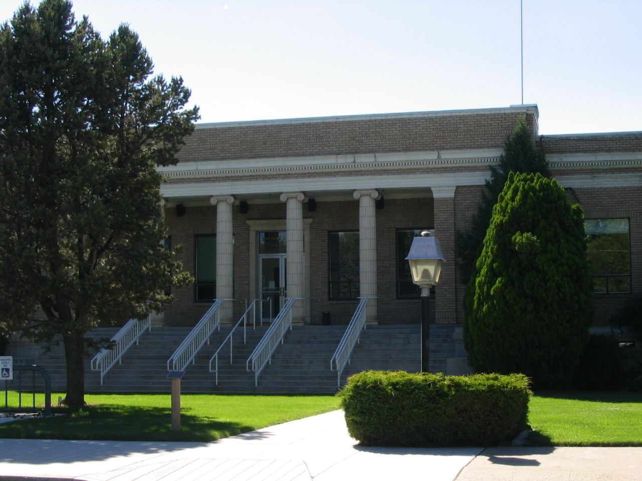 Minden is a census-designated place (CDP) in Douglas County, Nevada, United States. The population was 3,001 at the 2010 census. It is the county seat of Douglas County and is adjacent to the city of Gardnerville. It is named after the town of Minden, in the German state of North Rhine-Westphalia. It has possessed a post office since 1906. US Highway 395 runs through Minden. It is also the terminus of State Route 88, which becomes California State Route 88 on the west side of the state line. The Douglas campus of the Western Nevada College is located in Minden. The Minden area is considered one of the premier locations for soaring in the United States.